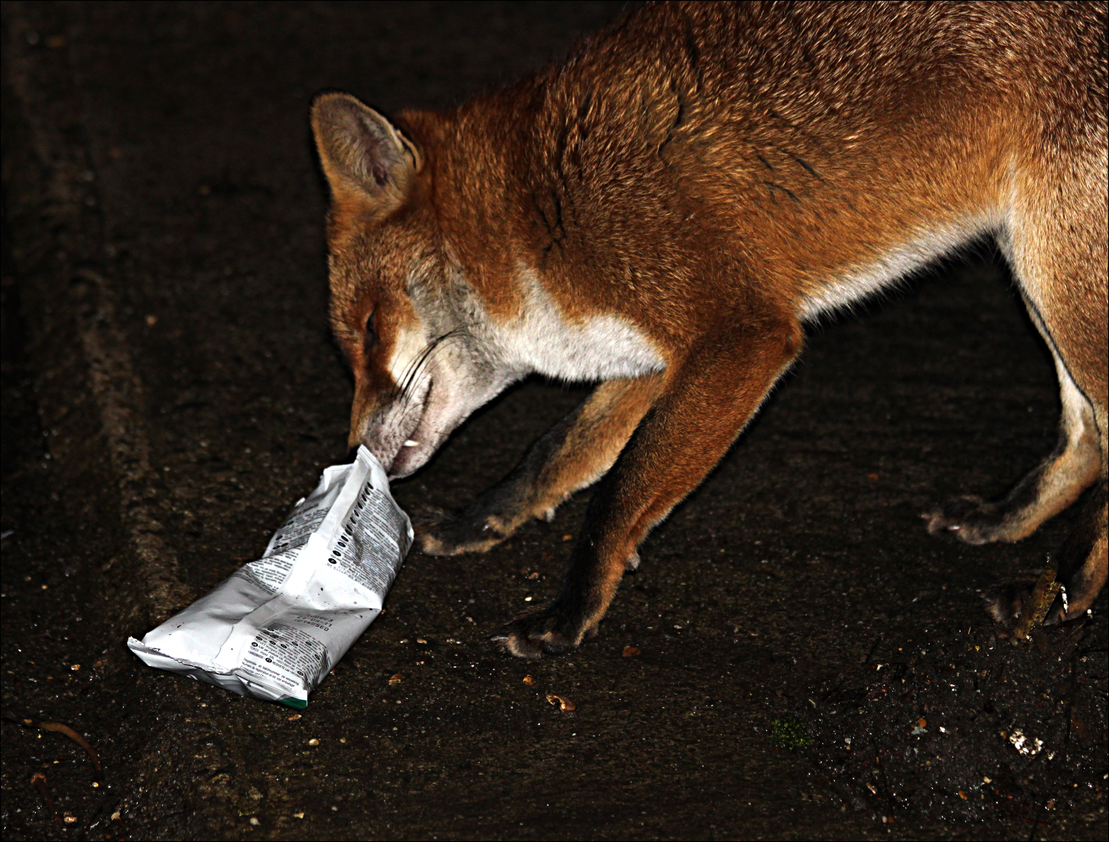 A fox eats biscuits from inside a packet. Dorset, England